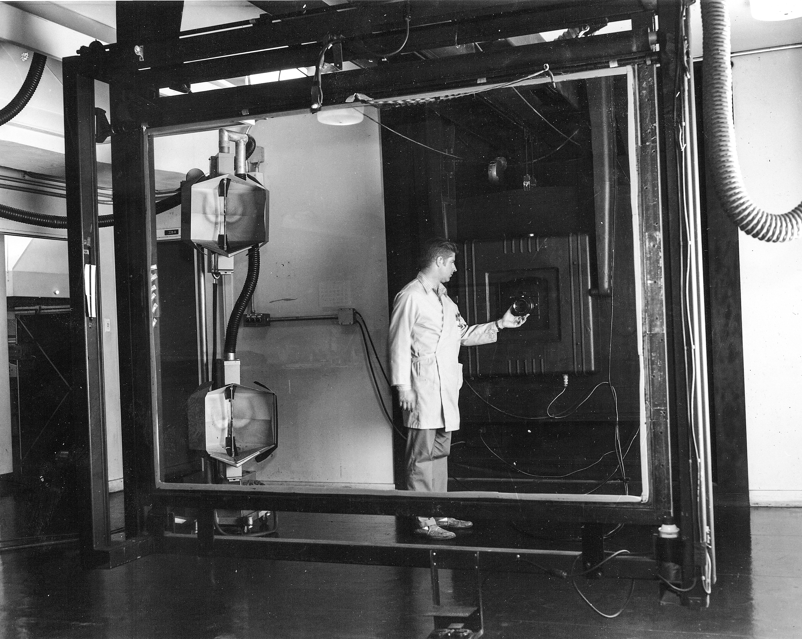 Jay Prendergast adjusts the lens on a Robertson 48-inch, 4.5 ton camera. Installed in 1959, the camera was used for precise scale transformation of mapping separates and composites. This photo was taken in Menlo Park, CA in 1965.